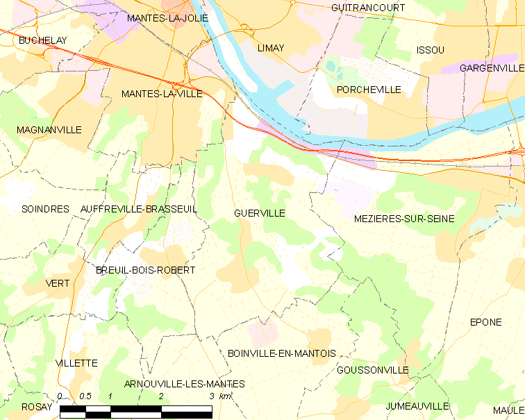 Map of French municipality Guerville